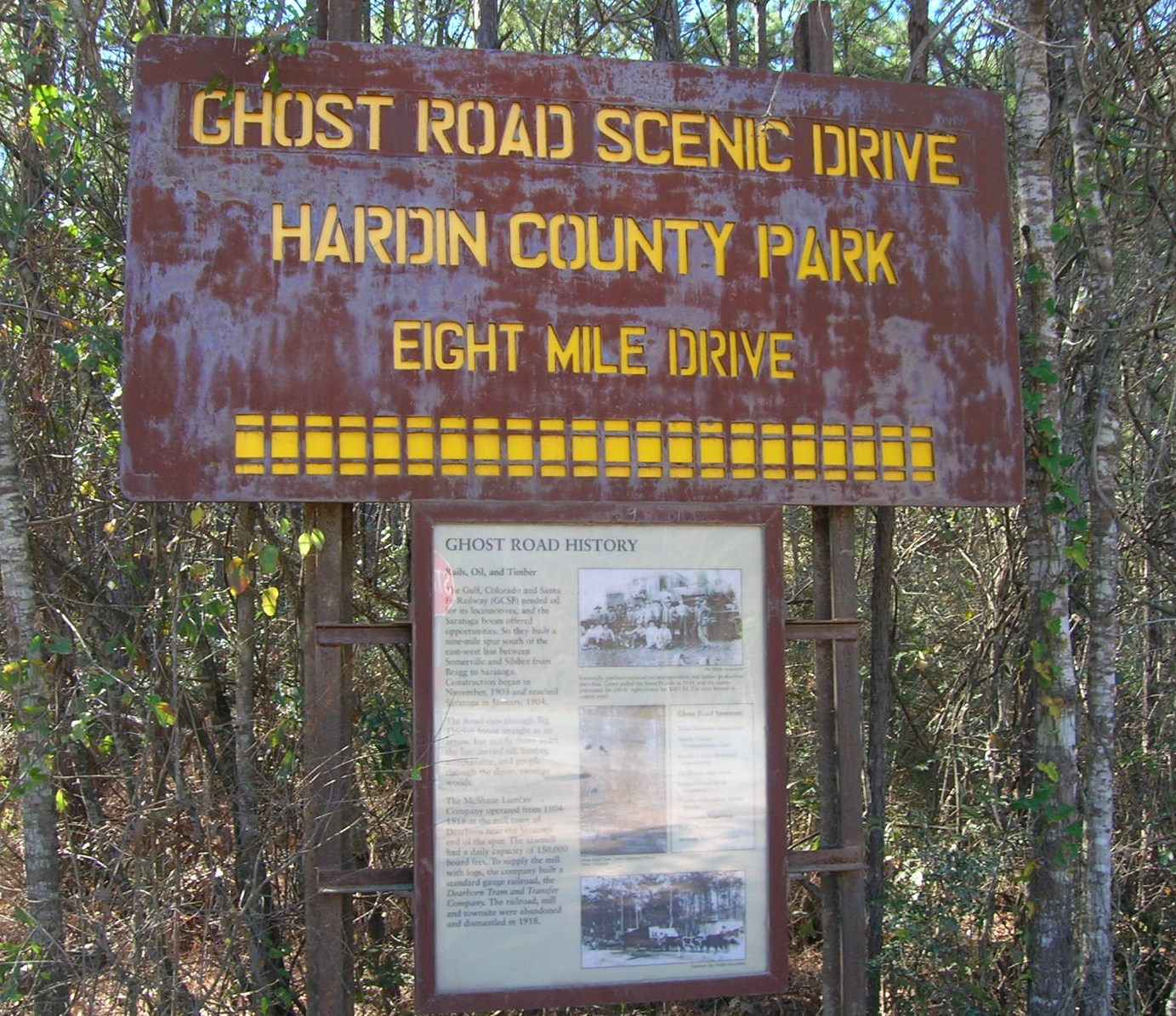 Entrance sign of the Ghost Road of Hardin County, Texas.